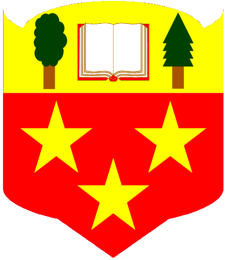 Shield of arms of The Lord Sutherland of Houndwood